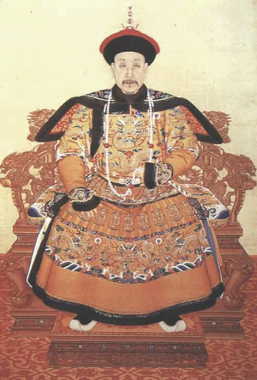 Qing Gao Zong (Qianlong), painted by the Qing dynasty court painters, dating back more than 200 years